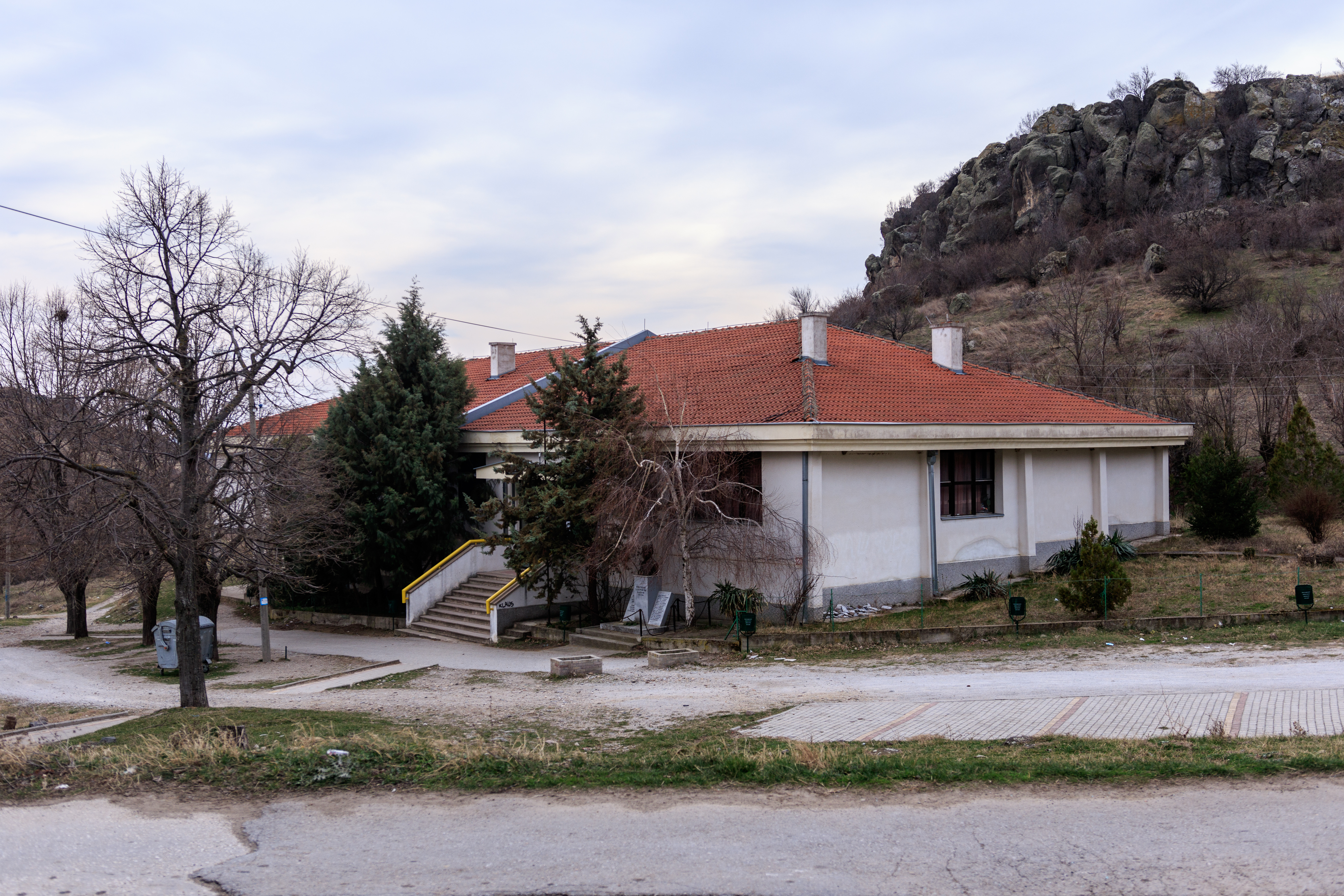 Primary school in the village Mlado Nagoričane